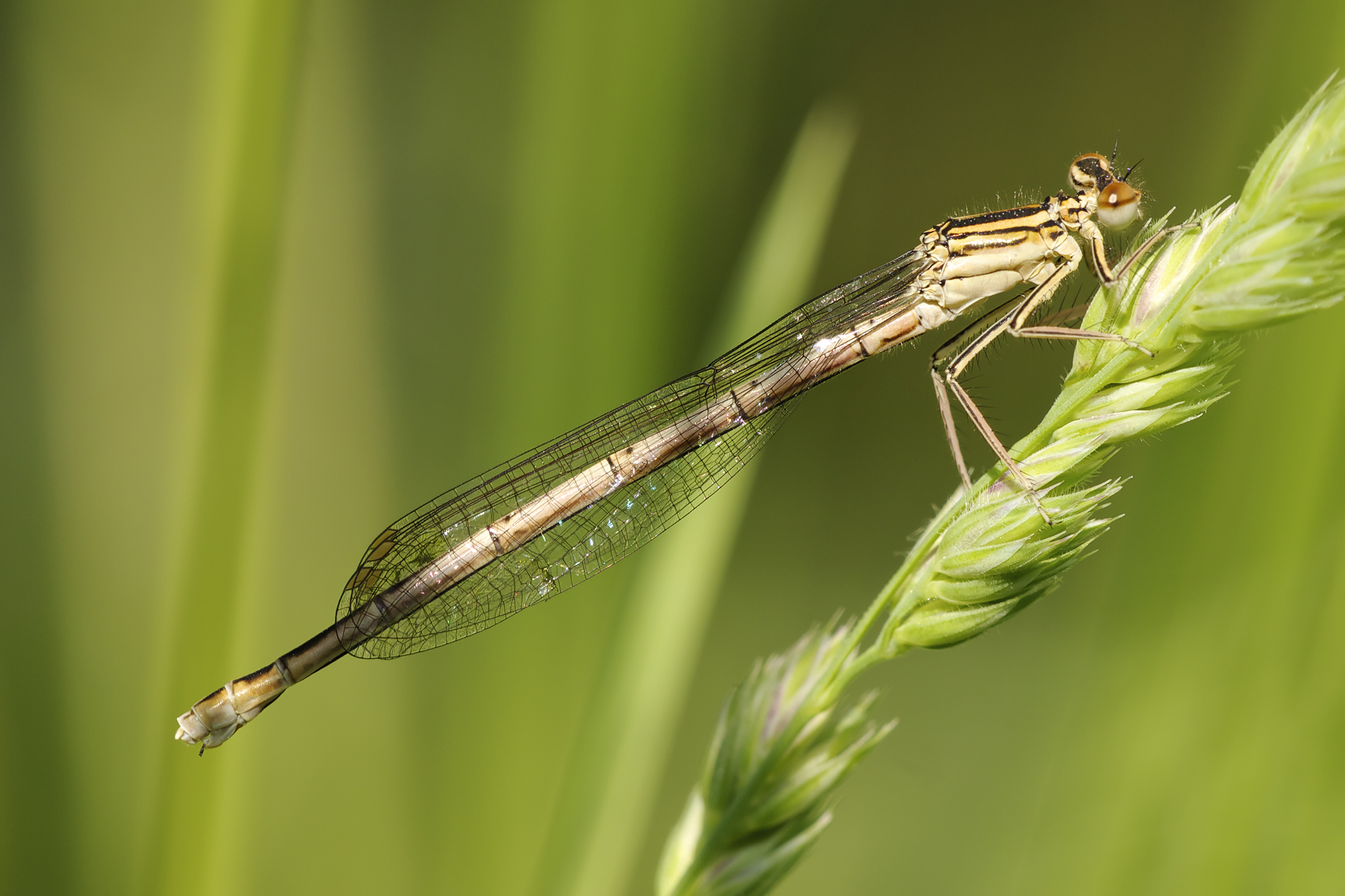 White-legged Damselfly (Platycnemis pennipes), female, Chemnitz, Germany